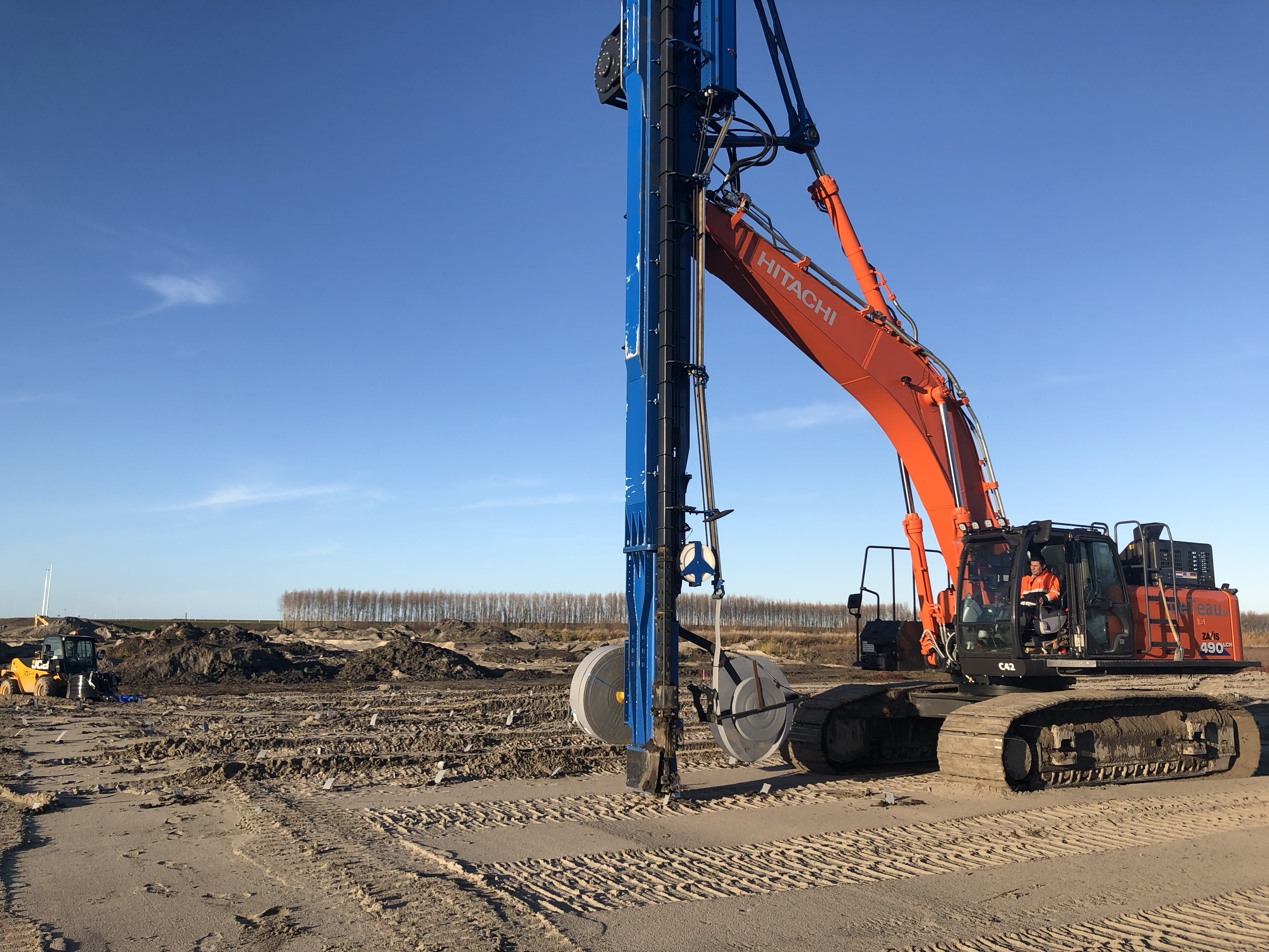 Hitachi ZX490LCH-6 working in the Netherlands to install prefabricated vertical drain for CeTeau BV.